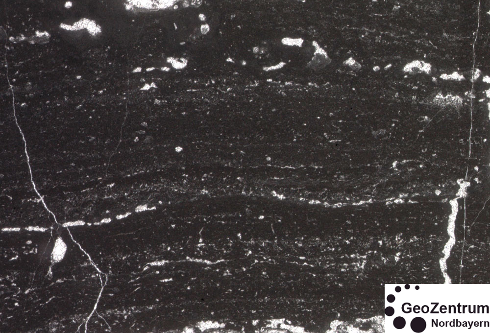 Bindstone (Dunham-classification). Width of Picture is 9mm. Picture by courtesy of Axel Munnecke, Geozentrum Nordbayern